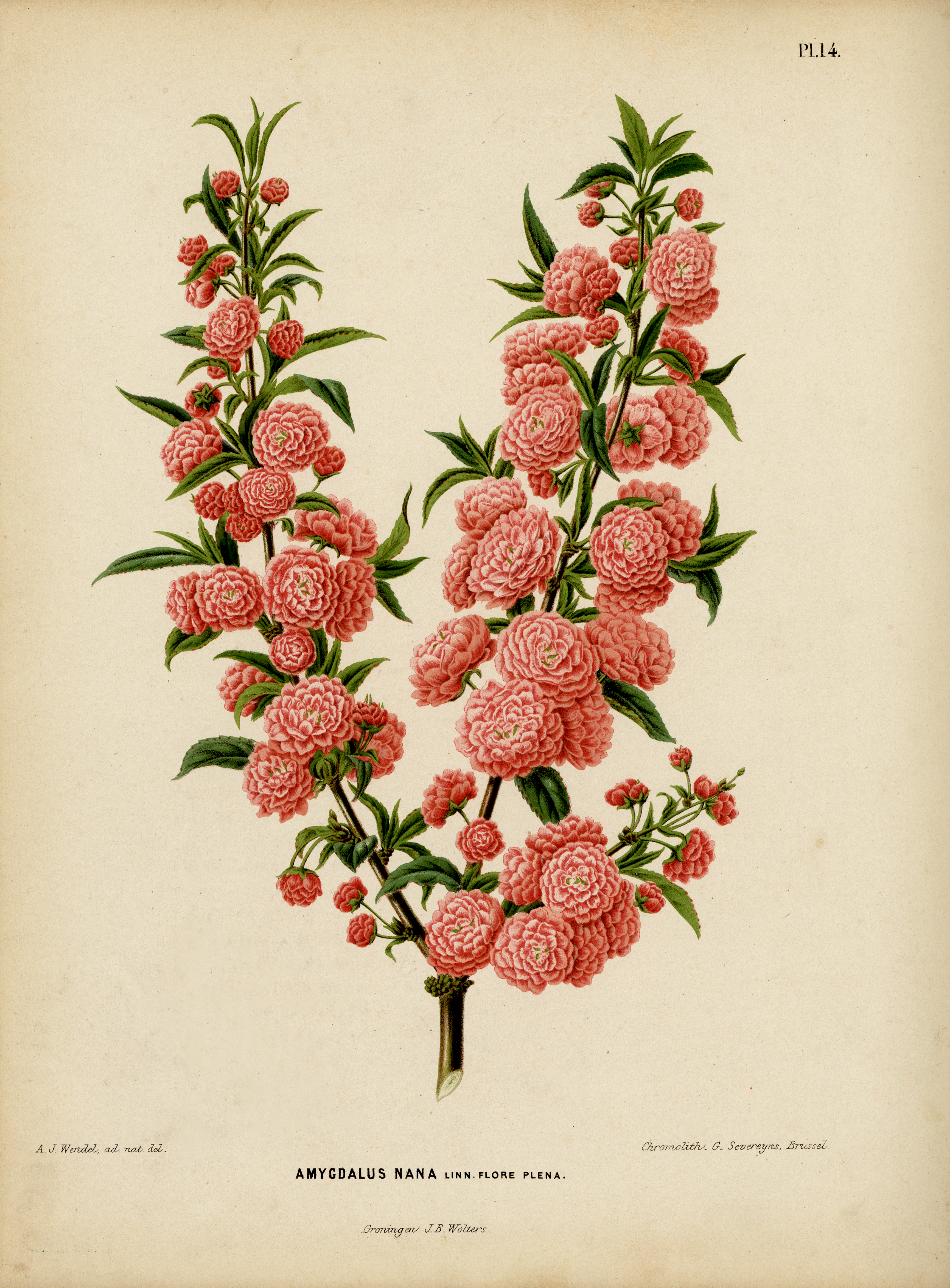 Plate 14: Amygdalus nana. Image by Abraham Jacobus Wendel, from the Dutch language book Flora: afbeeldingen en beschrijvingen van boomen, heesters, éénjarige planten, enz. voorkomende in de Nederlandsche tuinen by H. Witte, illustr. by A.J. Wendel. Groningen: Wolters (1868) - converted from tif-file.